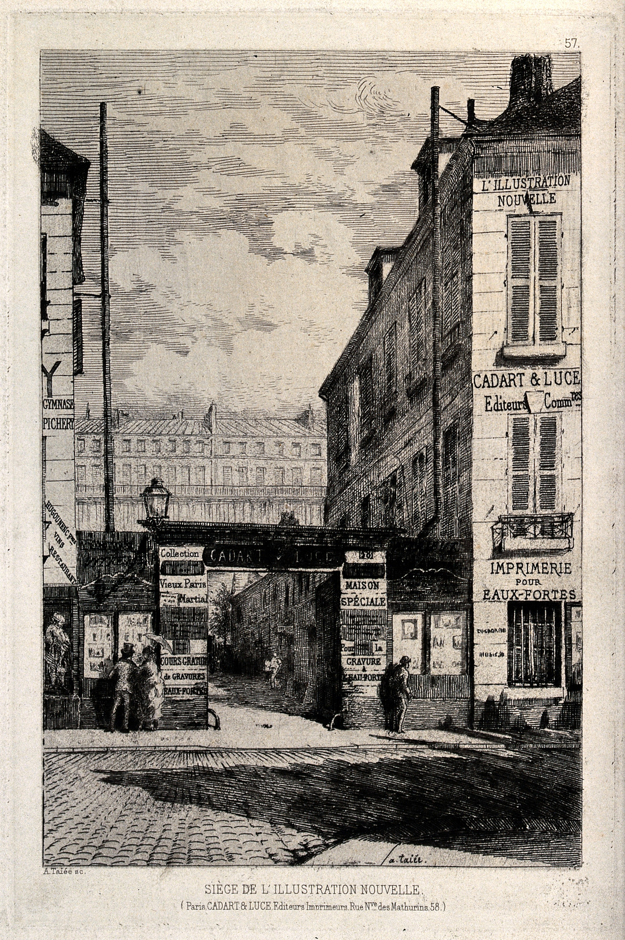 A street scene with tall buildings and people looking at posters on the walls. Etching by A. Taiée. Iconographic Collections